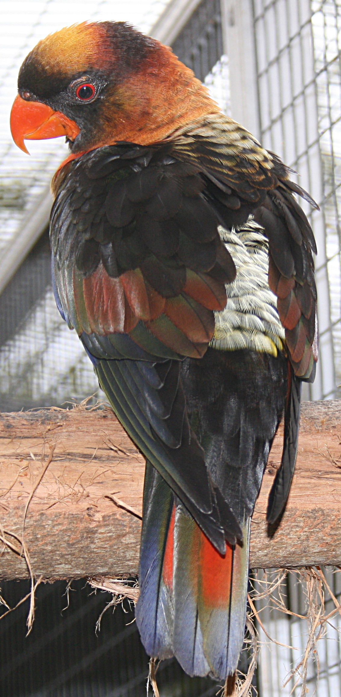 Dusky Lory (Pseudeos fuscata) in an aviary. Funchal - Botanischer Garten